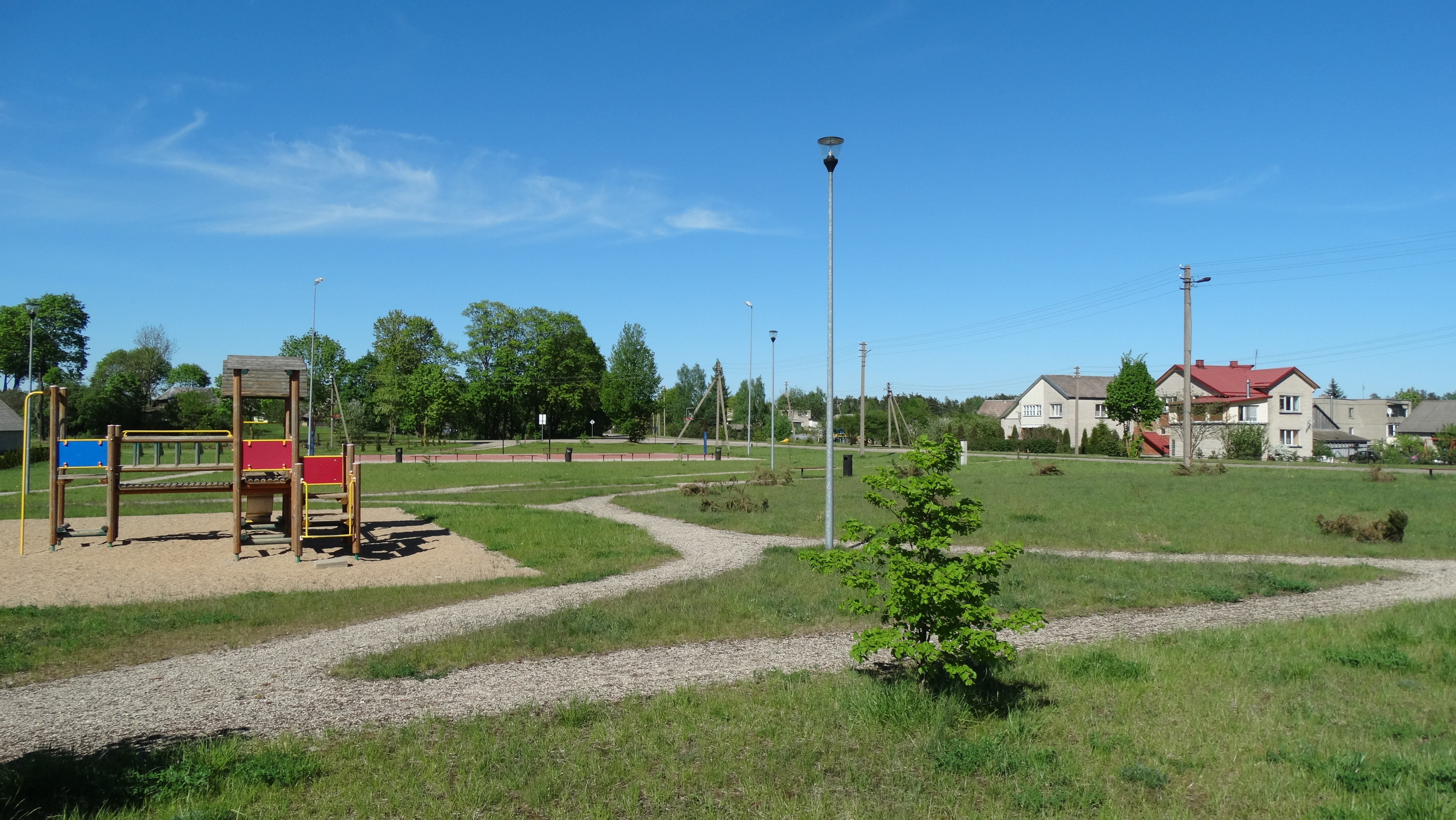 Toliejai, Molėtai District, Lithuania